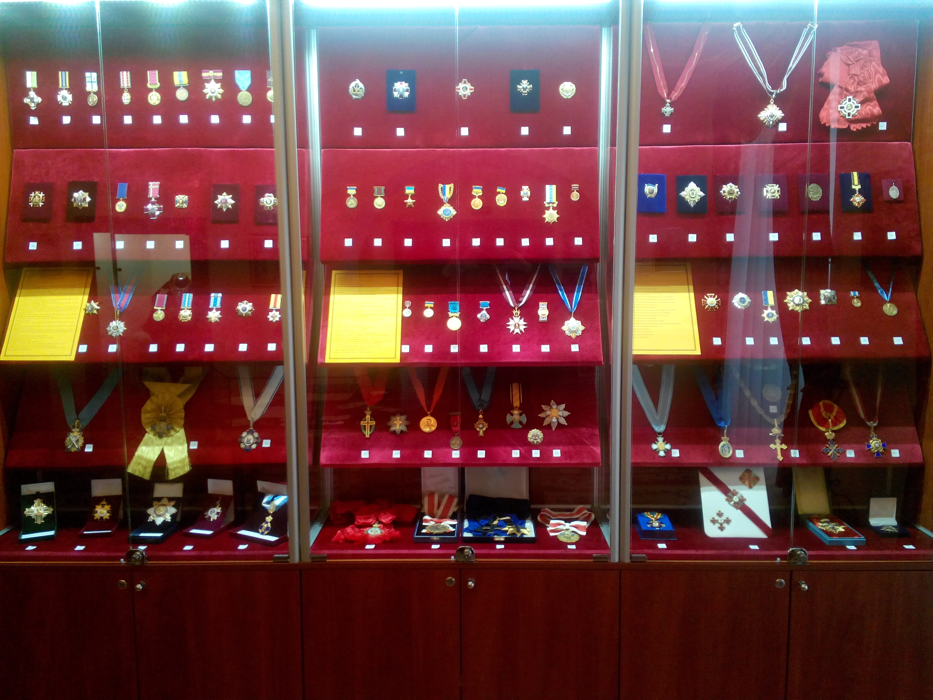 Нагороди Патріарха Філарета на виставці в Андріївській церкві